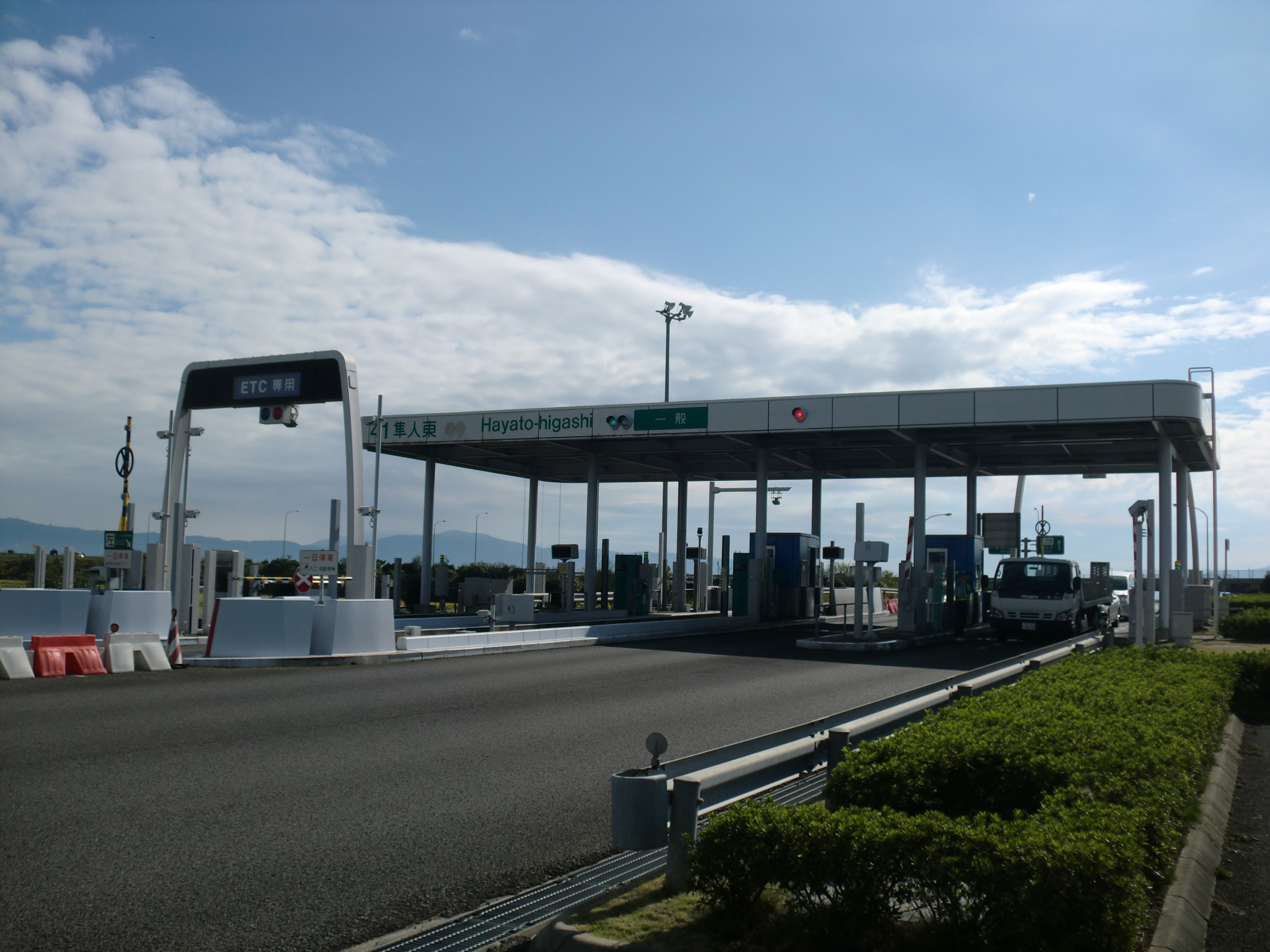 Hayato-higashi Interchange on the Hayato Road (Higashi-Kyushu Expressway)